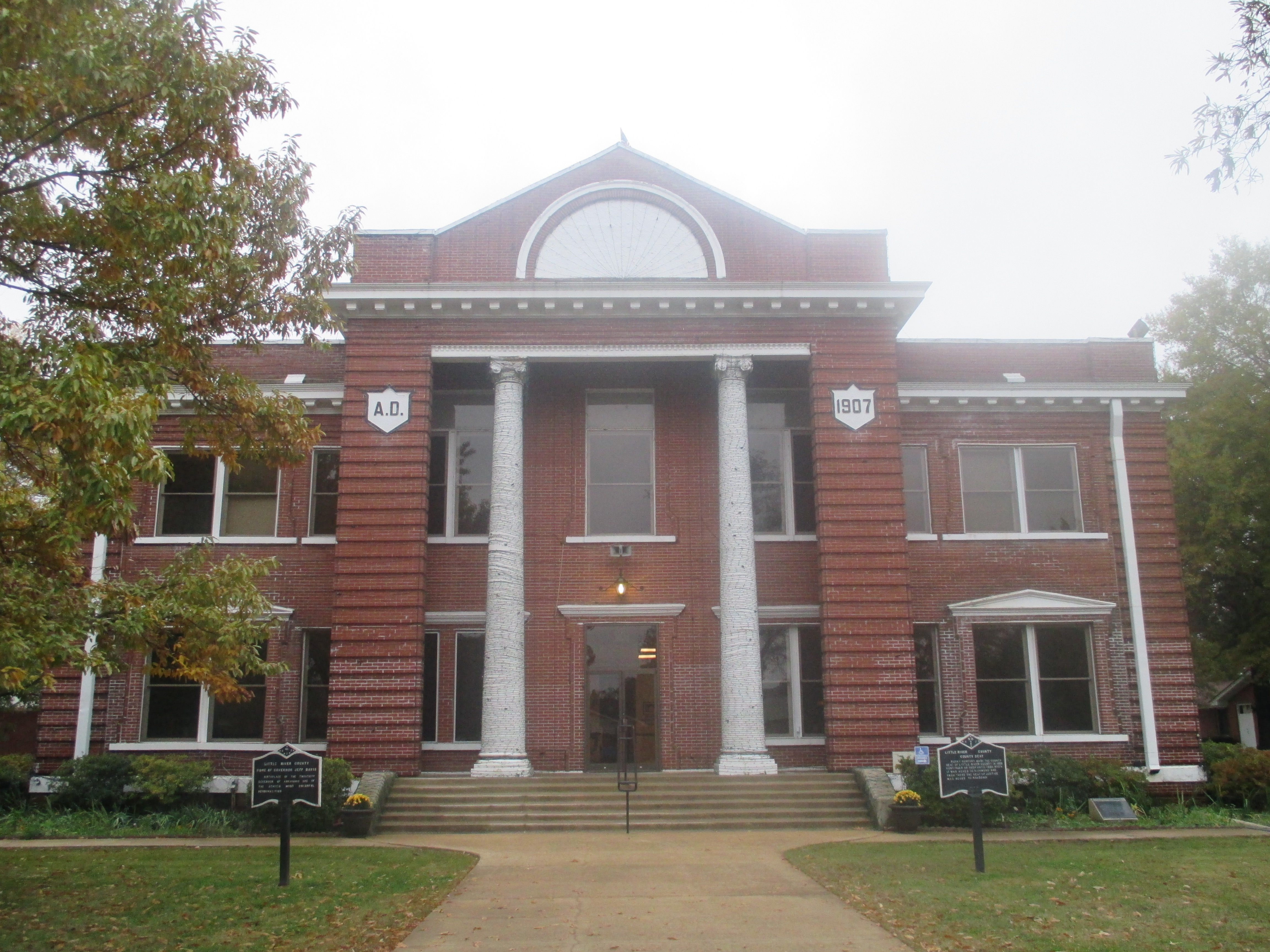 I took photo of Little River County Courthouse in Ashdown, AR.